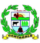 Coat of arms of the city of Cantagalo, Minas Gerais, Brazil.